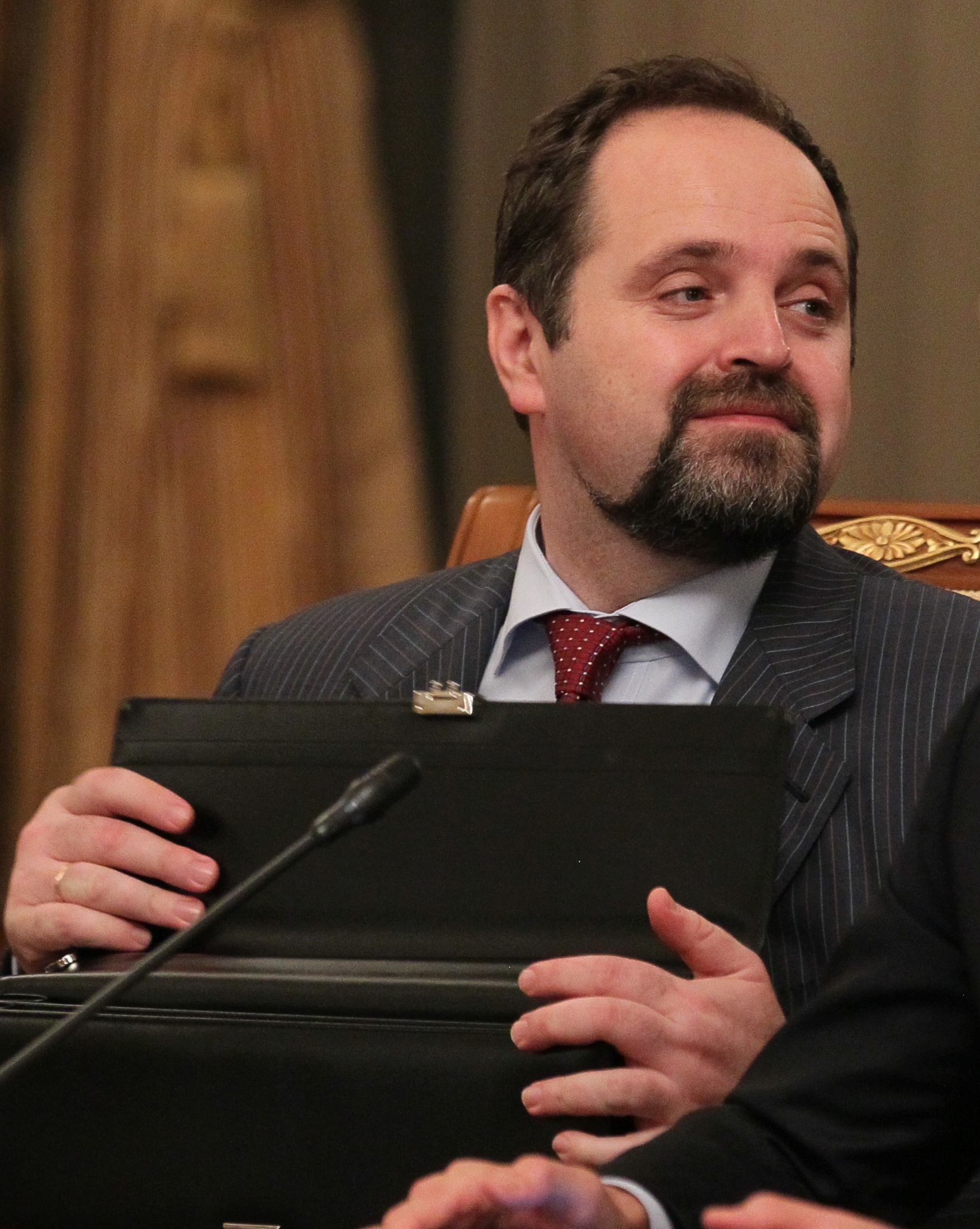 Minister of Natural Resources and Environment of the Russian Federation Sergei Donskoi at a government meeting